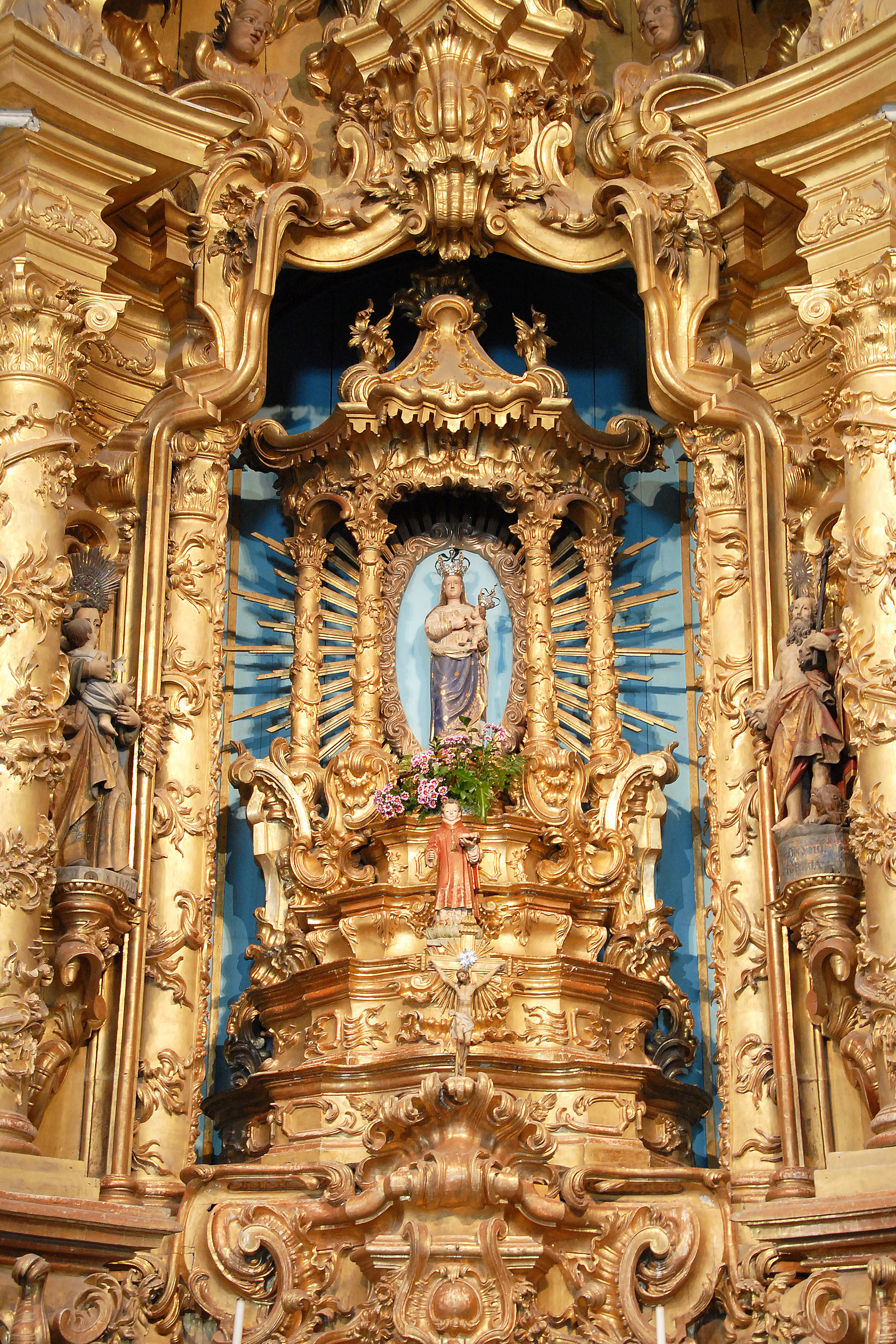 Altar at Santuário de Nossa Senhora dos Remédios This file was uploaded for Wiki Loves Monuments in Portugal with the unique identifier 73815. This monument is classified as Imóvel de Interesse Público. This building is classified as Imóvel de Interesse Público.